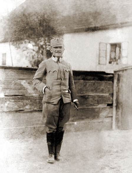 Stepan Shukhevych (1877-1945) – Ukrainian lawyer and politician. Photo in the uniform of Ukrainian Sich Riflemen